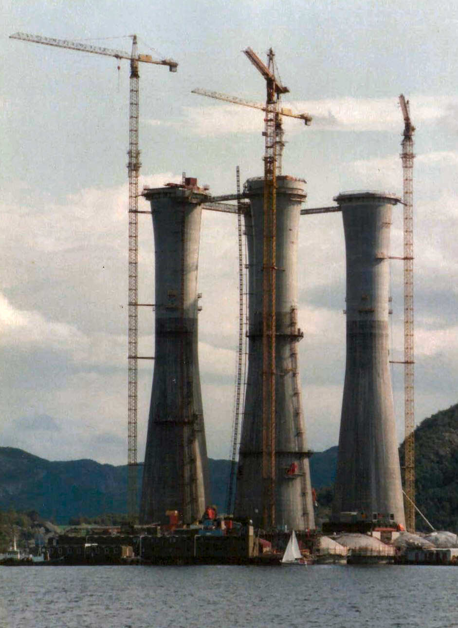 Off shore oil platform (of Condeep type) under construction in Norway (may be Statfjord B or Statfjord C ?)